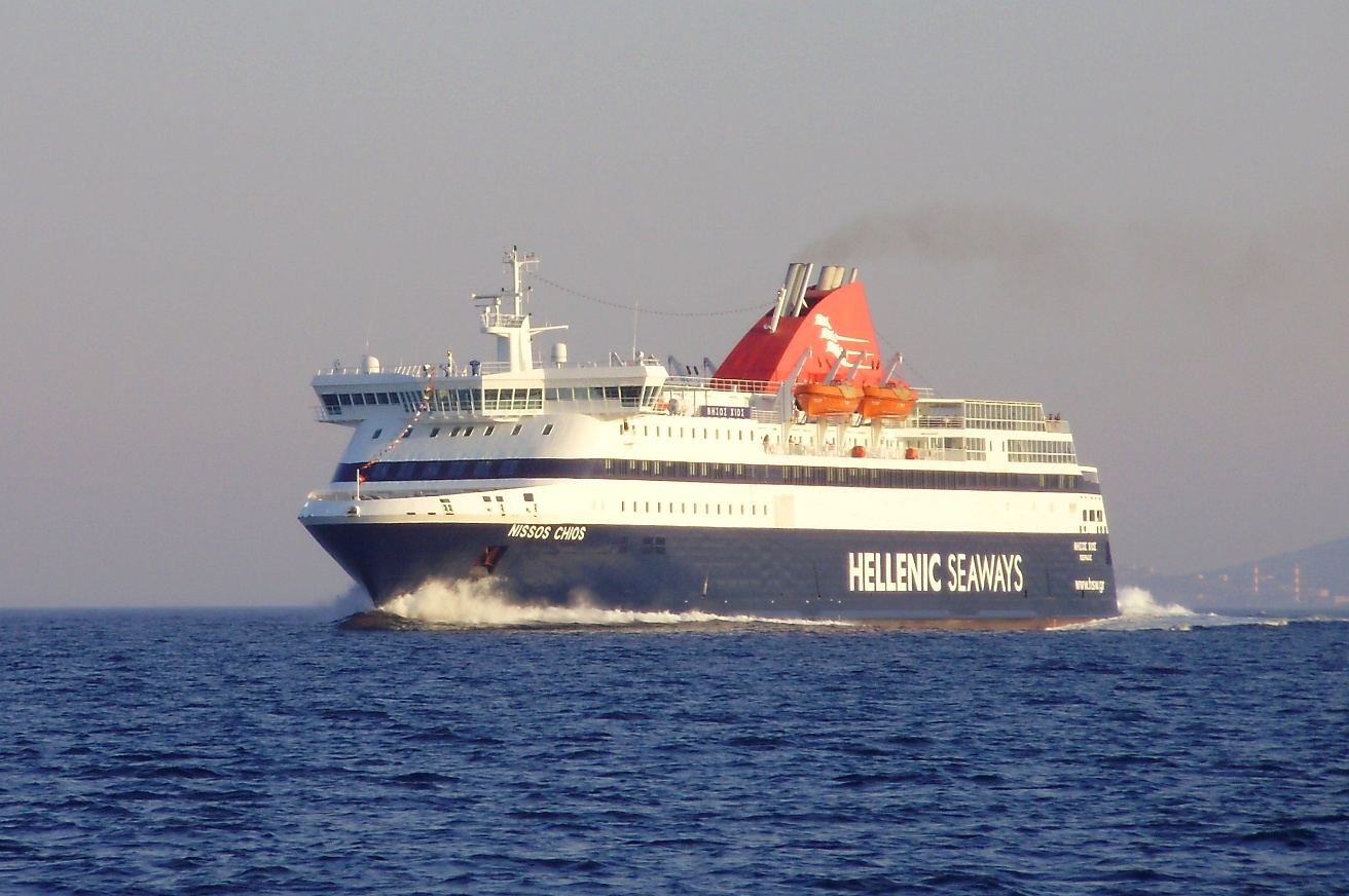 Nissos Chios outside Chios port IMO Number: 9215555 MMSI Number: 240672000 Callsign: SXXL Length: 141 m Beam: 21 m